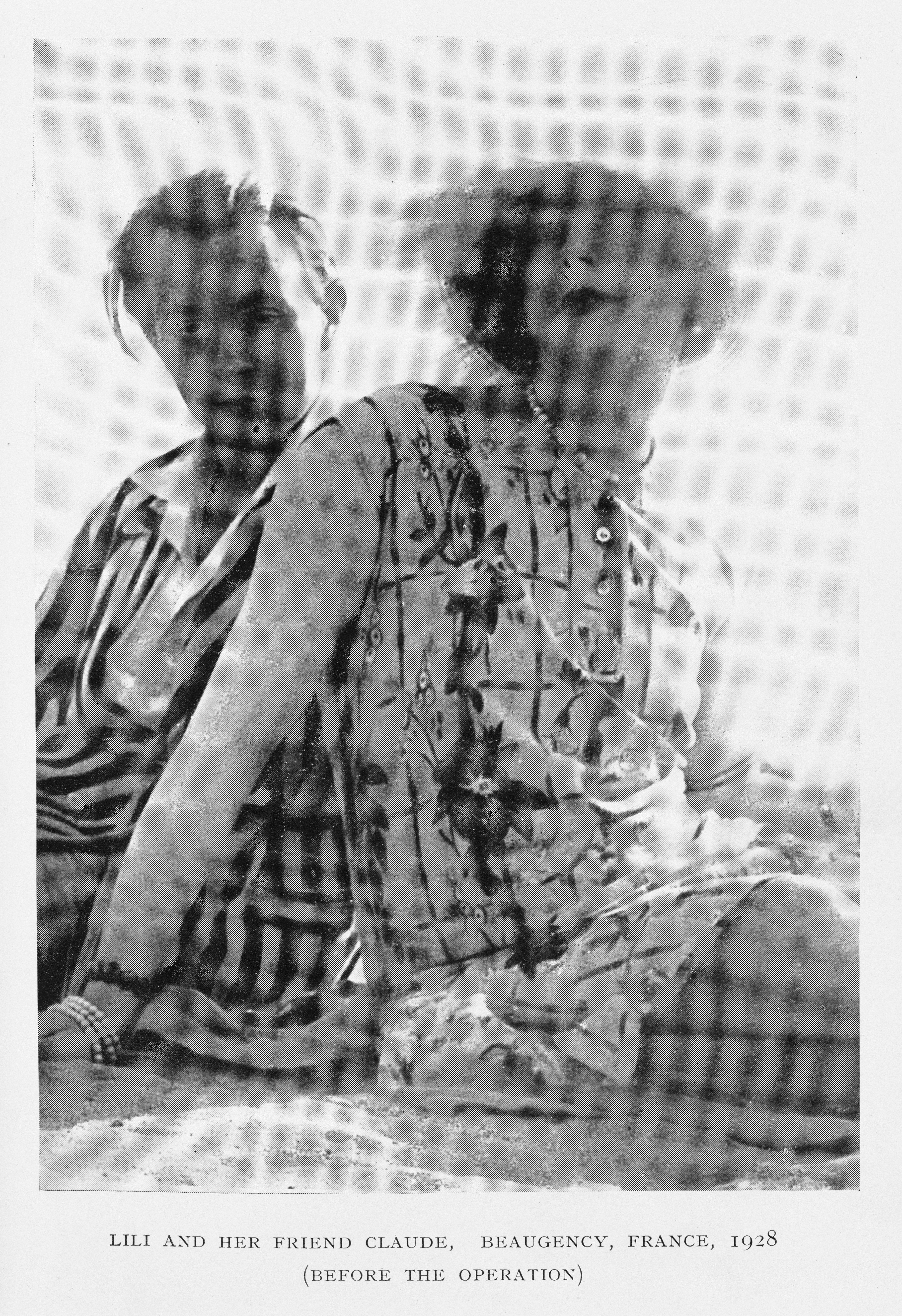 from N. Hoyer, ed., Man into Woman. An Authentic Record of a Change of Sex. The true story of the miraculous transformation of the Danish painter Einar Wegener (Andreas Sparre). London: Jarrolds, 1933. Photograph: Lili and her friend Claude, Beaugency, 1928 (before the operation). opp. p. 64 General Collections Keywords: hoyer, niels; wegener, einar; sparre, andreas; CHANGE; Sex